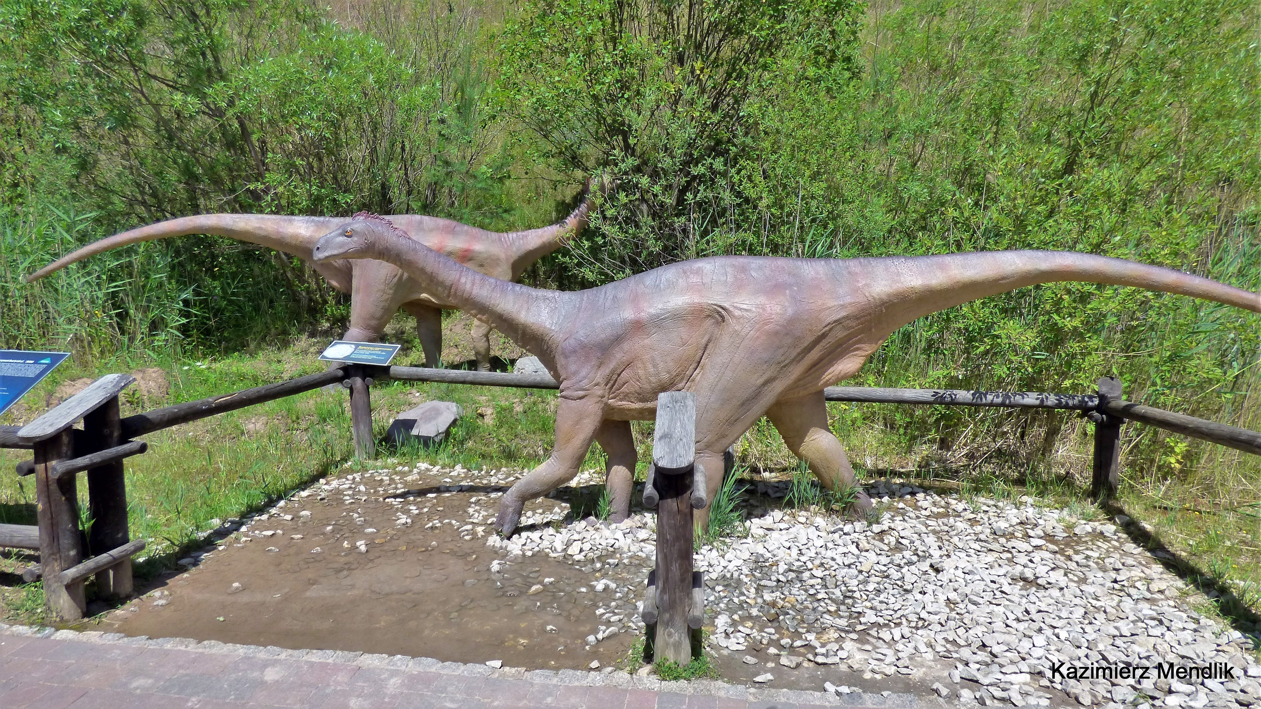 Life-size 3D reconstructions of two individuals of Isanosaurus from the Late Triassic of Thailand, Jura Park Krasiejów, Upper Silesia, Poland